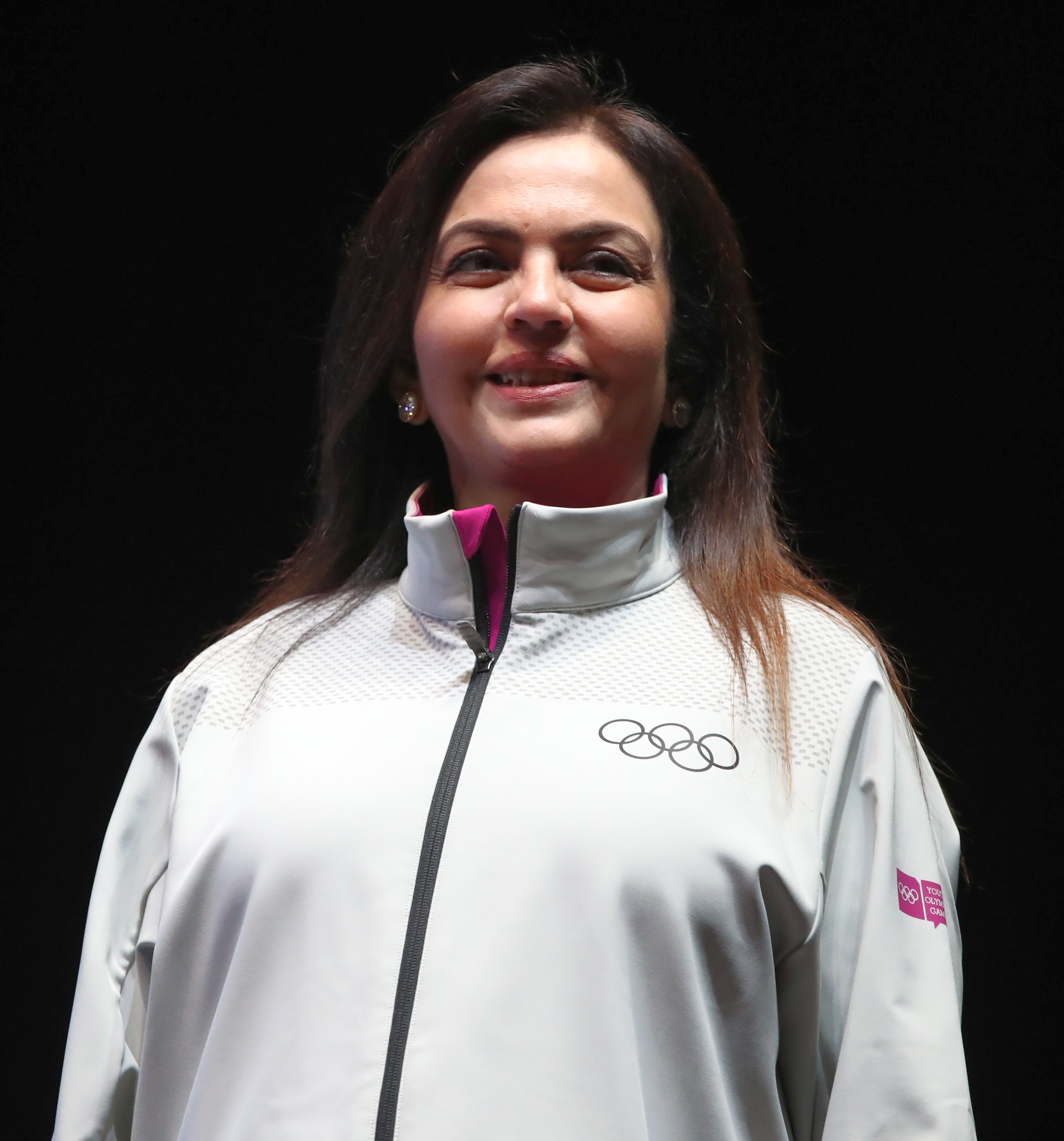 Medal Ceremony Day 3, 2020 Winter Youth Olympics in Lausanne